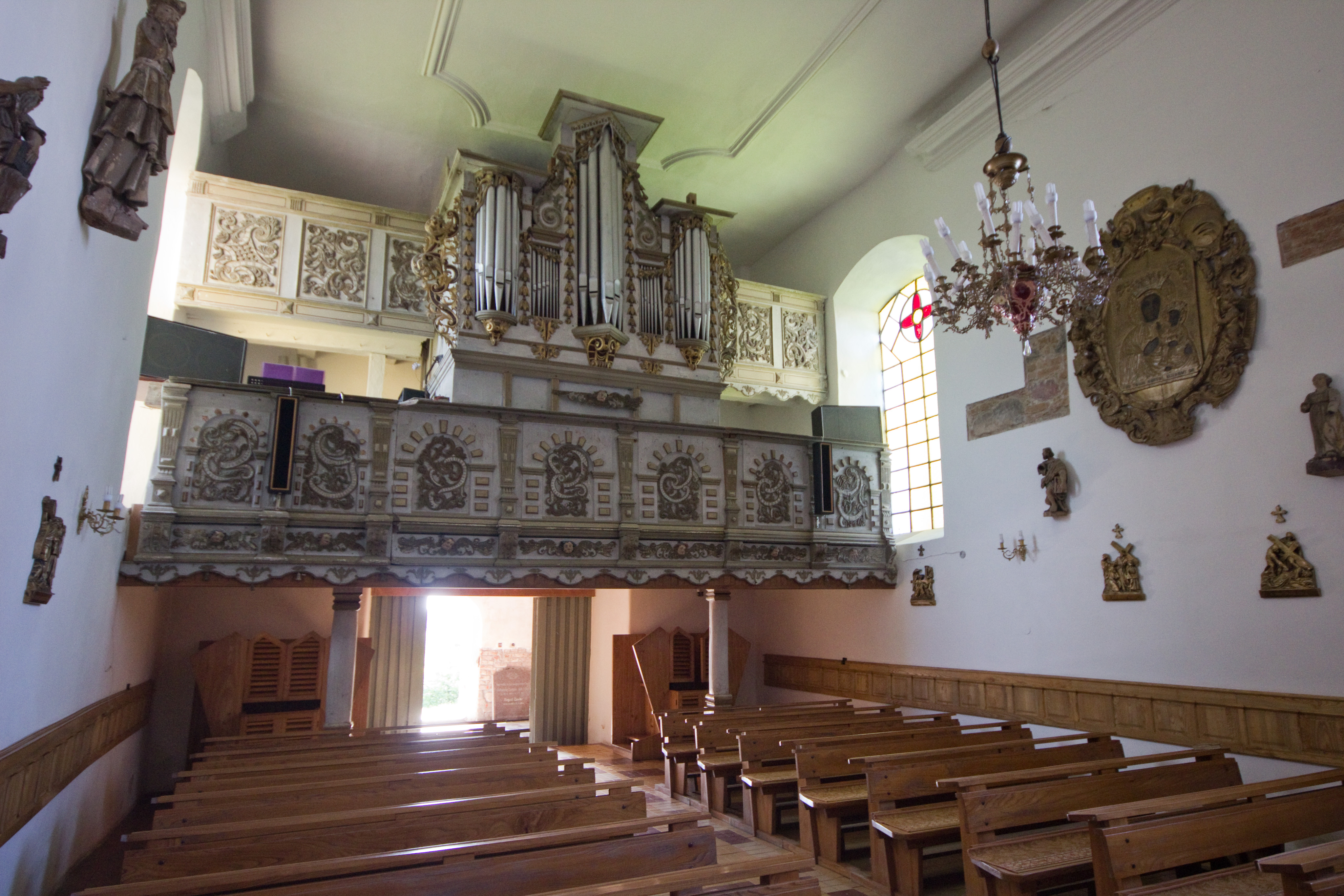 Church, Rodnowo, gmina Bartoszyce, powiat bartoszycki, Warmian-Masurian Voivodeship